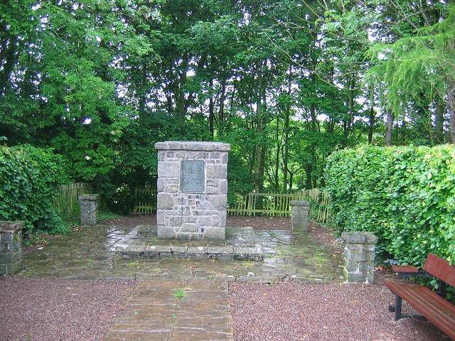 Grant's Braes. Monument showing the site of Grant's Braes, once home to Robert Burns' mother.